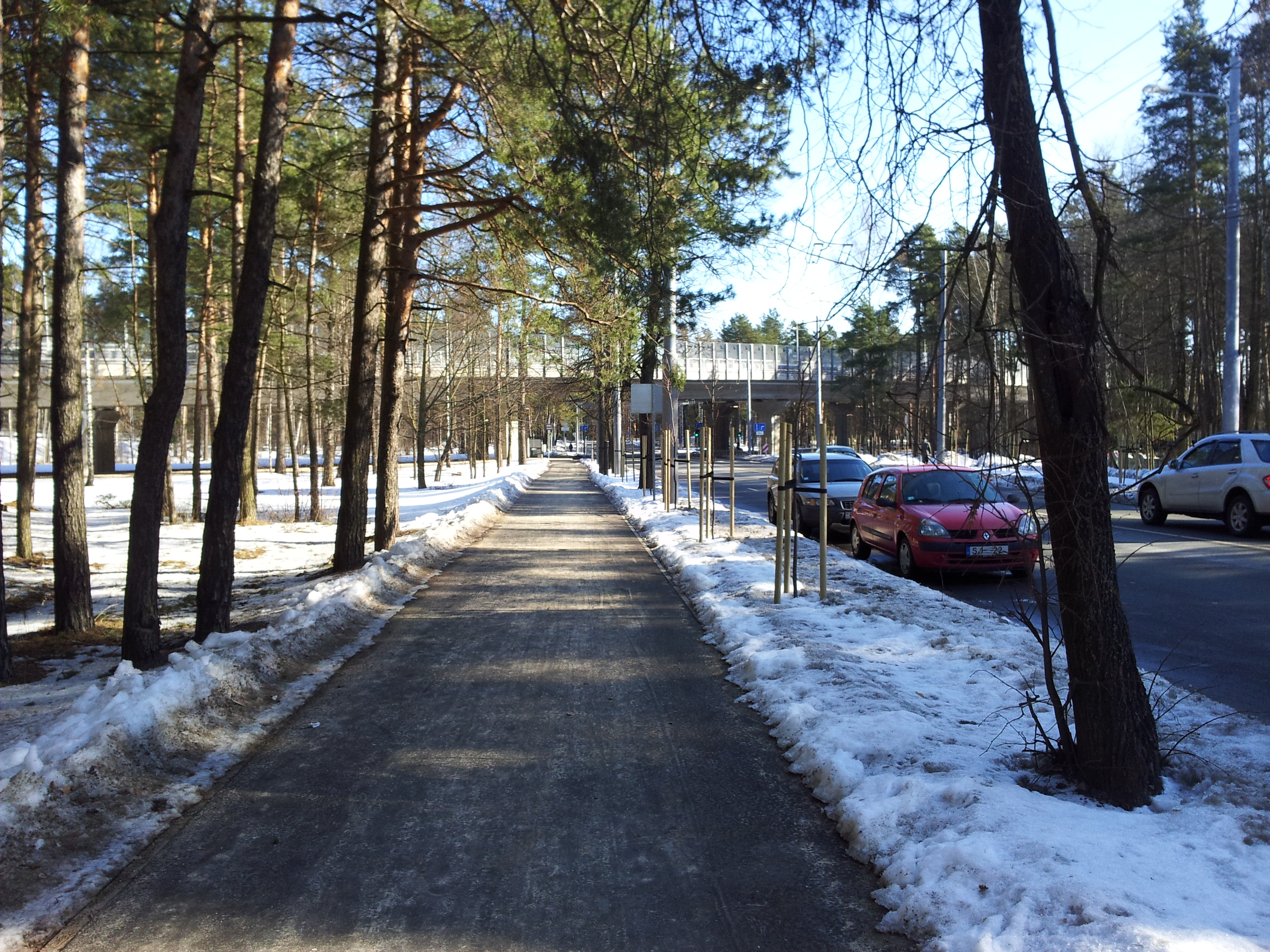 Mežaparks, Northern District, Riga, Latvia